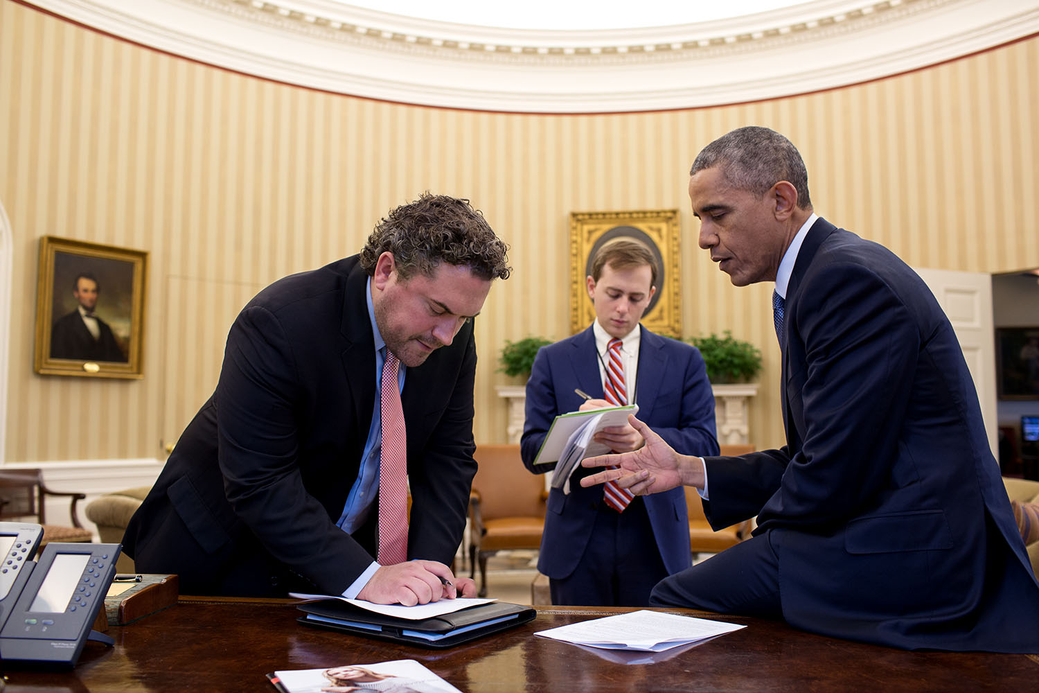 President Barack Obama works on his immigration speech with Director of Speechwriting Cody Keenan and Senior Presidential Speechwriter David Litt in the Oval Office, Nov. 19, 2014. (Official White House Photo by Pete Souza)